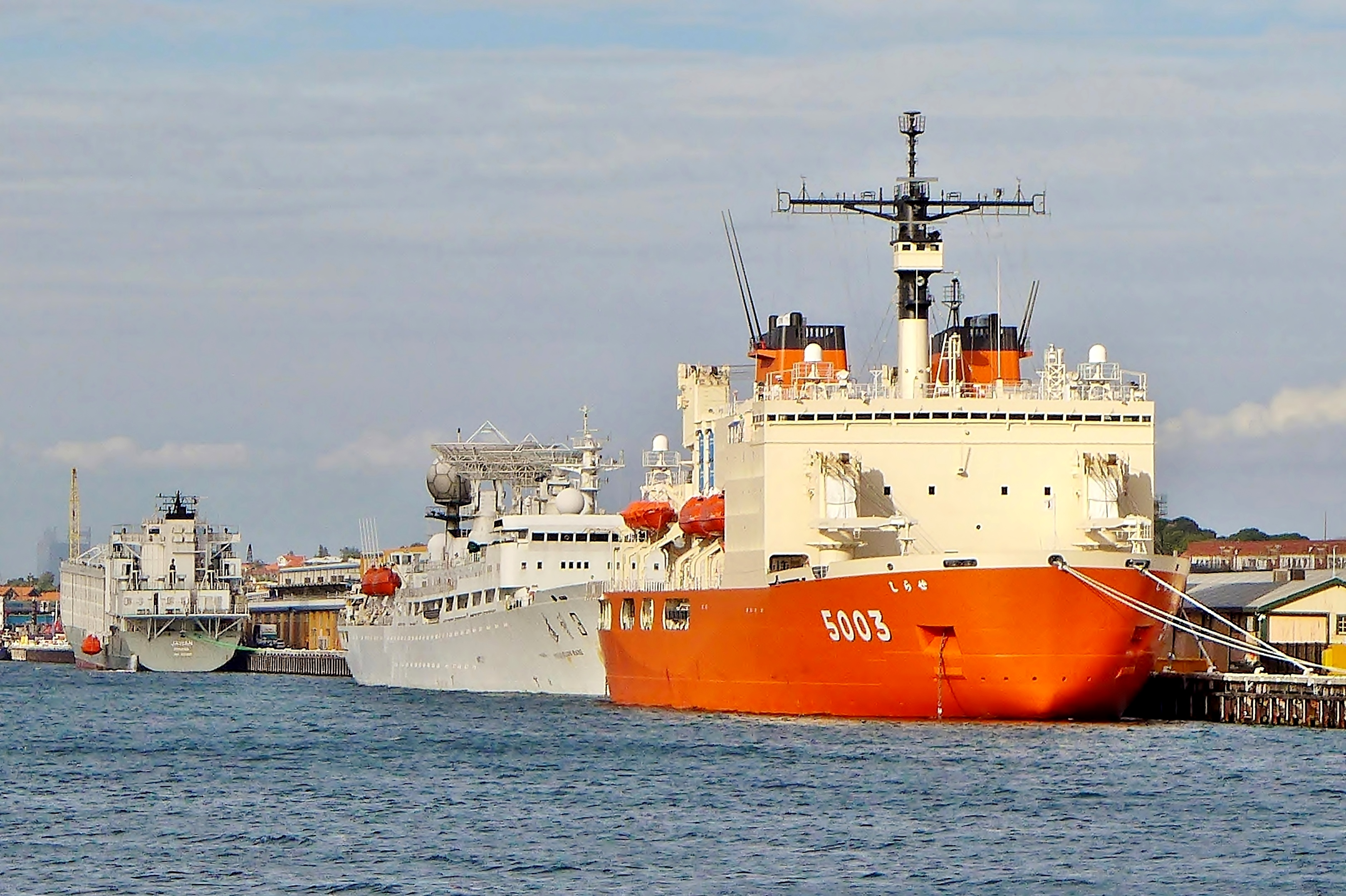 View of Japanese icebreaker Shirase (AGB-5003) berthed at Victoria Quay, in Fremantle Harbour, Western Australia. Behind her is Yuan Wang-class tracking ship Yuan Wang 3, and a newly converted livestock carrier, Jawan (IMO 9262895), previously known as Corvus J, the container ship that collided with MV Baltic Ace in the North Sea.